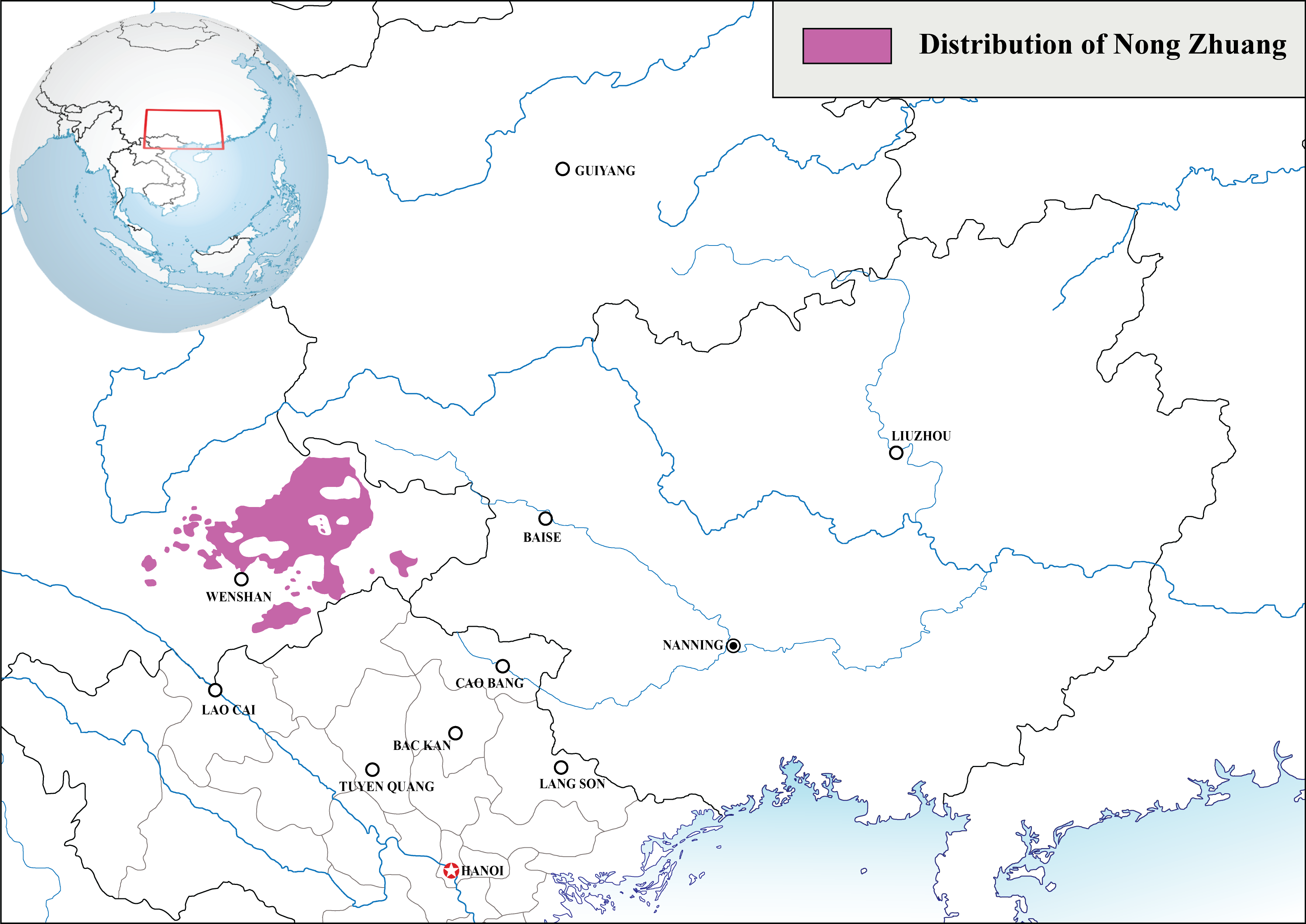 Geographic distribution of Nong Zhuang dialect Source: Major Zhuang Language Groups and Related Peoples (Joshuaproject) [1]. Its vector version can be found here: Nong Zhuang.svg